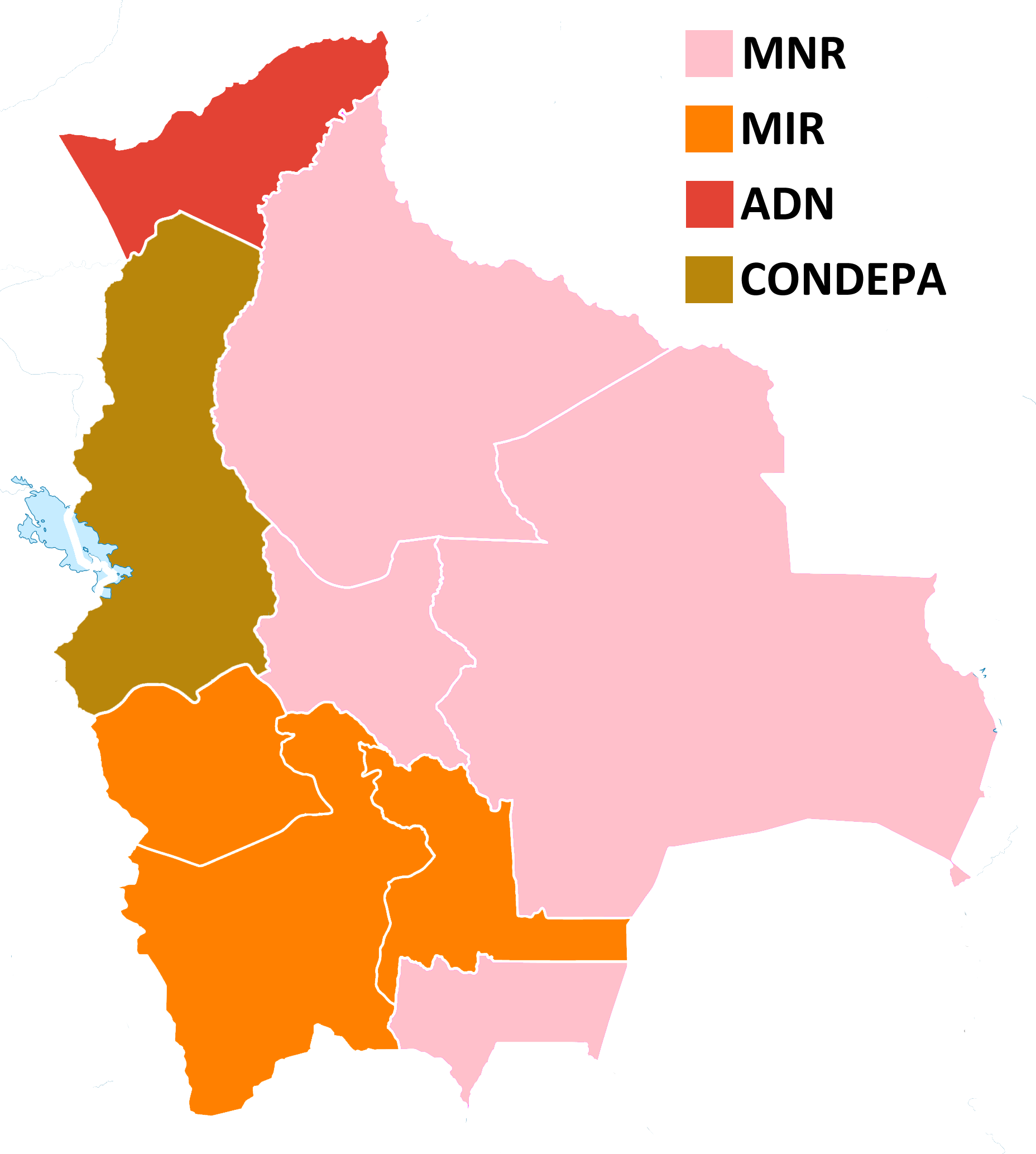 1989 Bolivian elections map